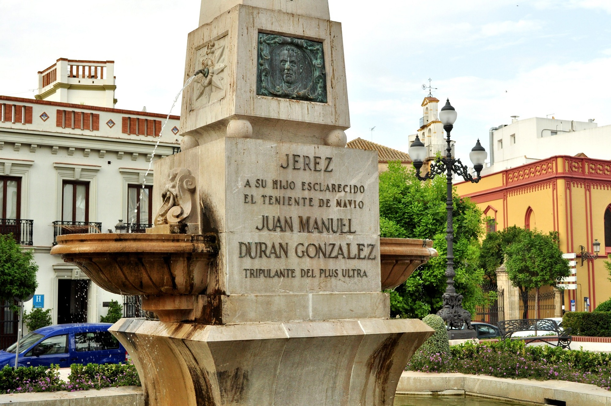 Monument to Juan Manuel Durán González, Angustias Square, Jerez